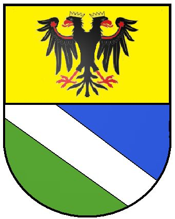 Arms of Ottoboni after the Imperial Grant of arms in 1558